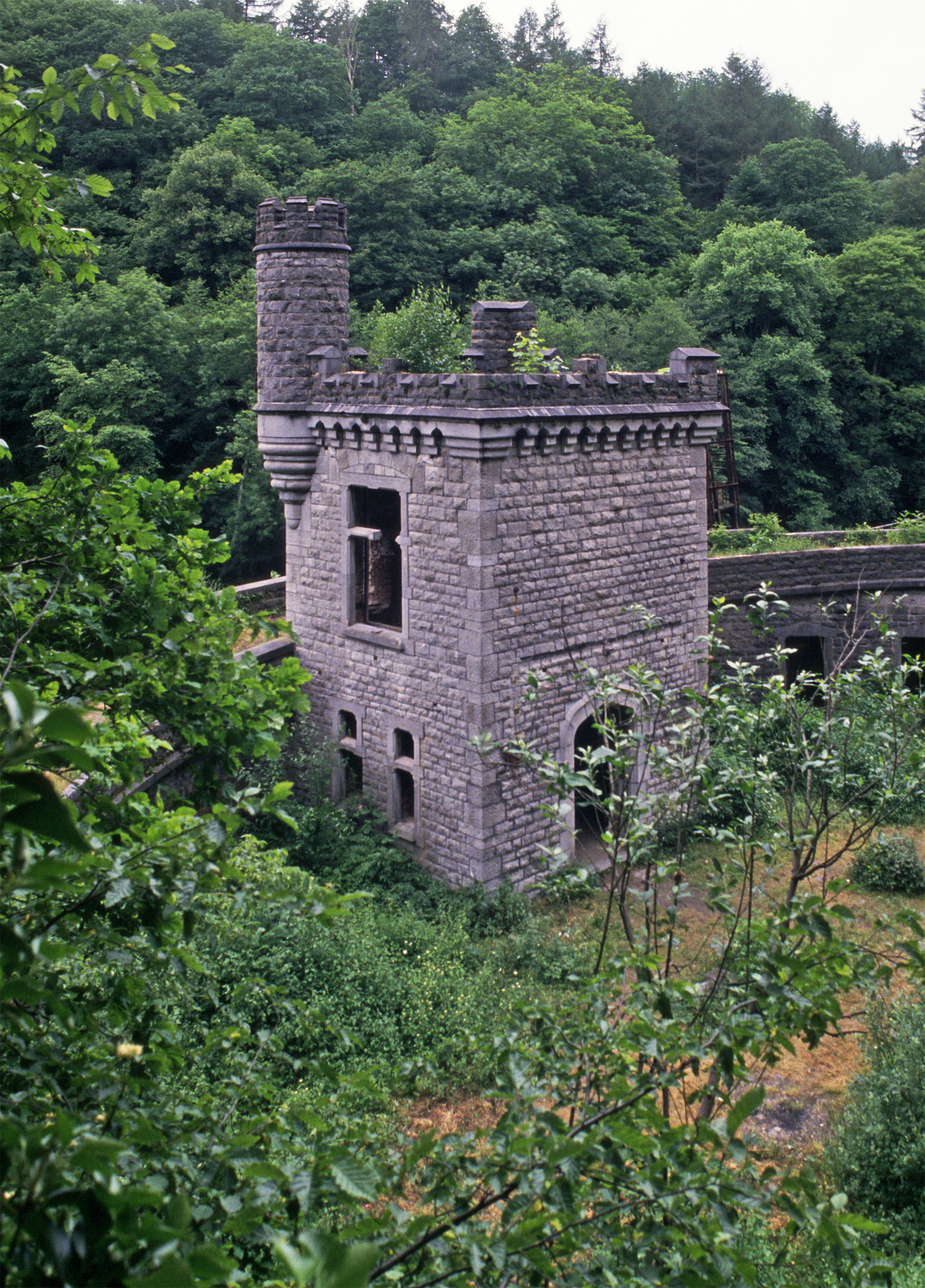 Houyet (Belgium): former train station of the Château royal d'Ardenne on line 166. Also called: Halte royale d'Ardenne.